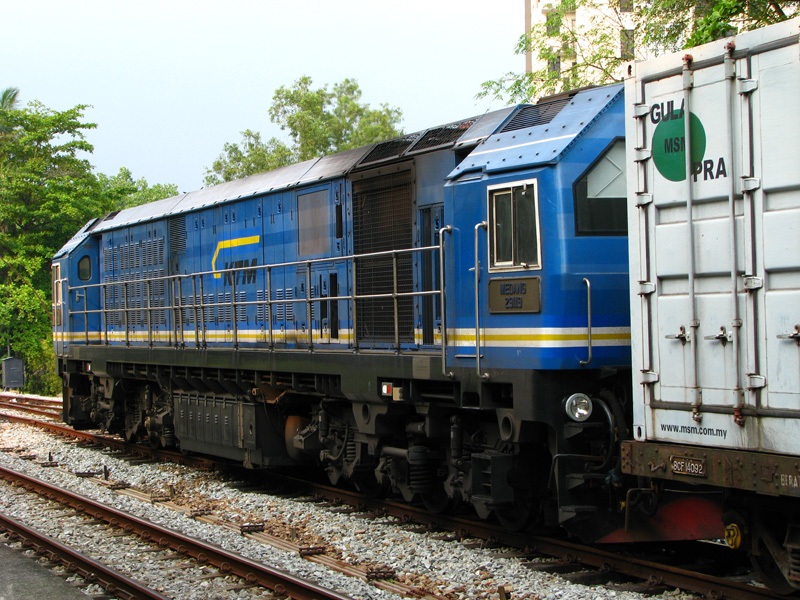 A KTM Class 29 locomotive stopping at the loopline of Bukit Timah Railway Station in Singapore to give way to an oncoming train.